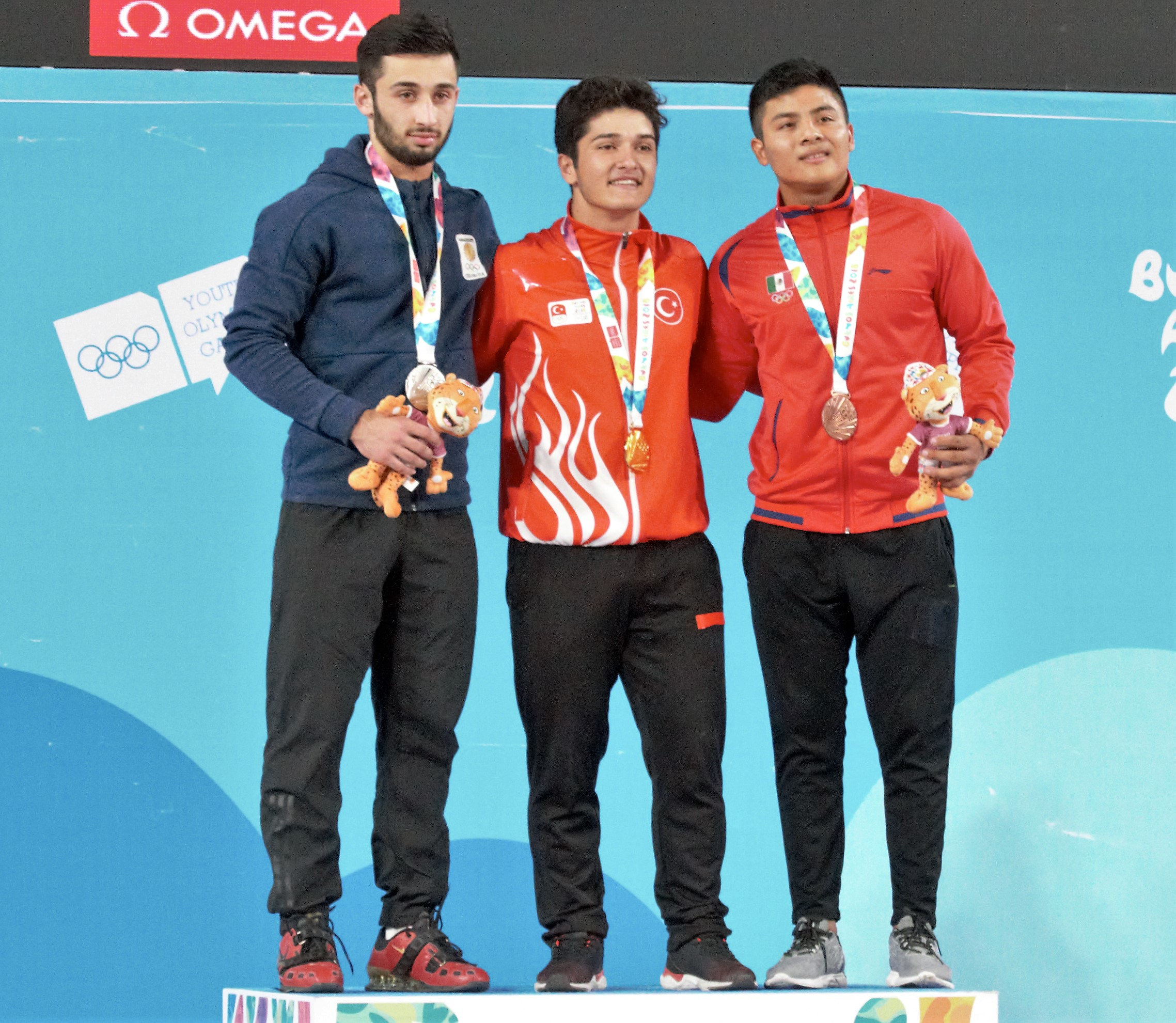 Victory ceremony of the Boys' 69 kg Weightlifting competition of the 2018 Summer Youth Olympics.